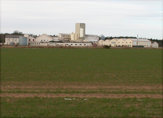 Quaker Oats plant by Stratheden, Cupar